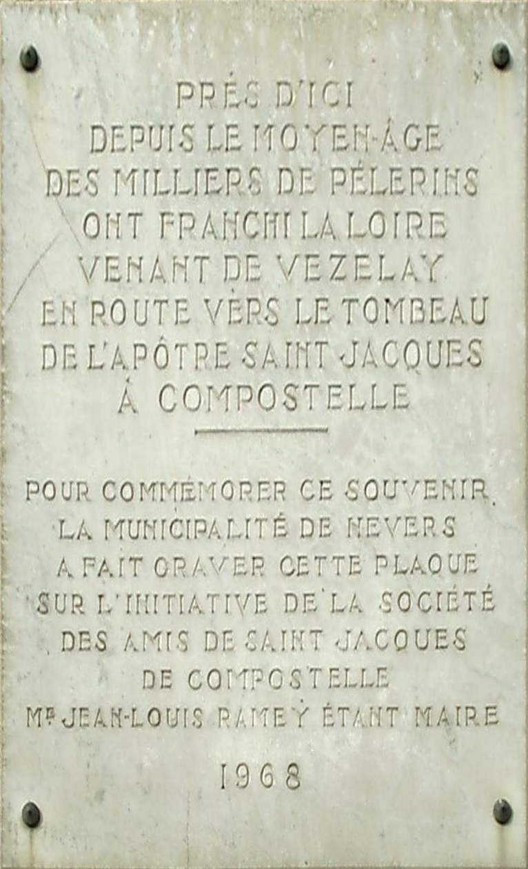 Stoneplate at the Goguin Tower in Nevers